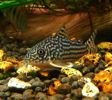 Corydoras sterbai, a highly sought after species of freshwater catfish for the home aquarium.